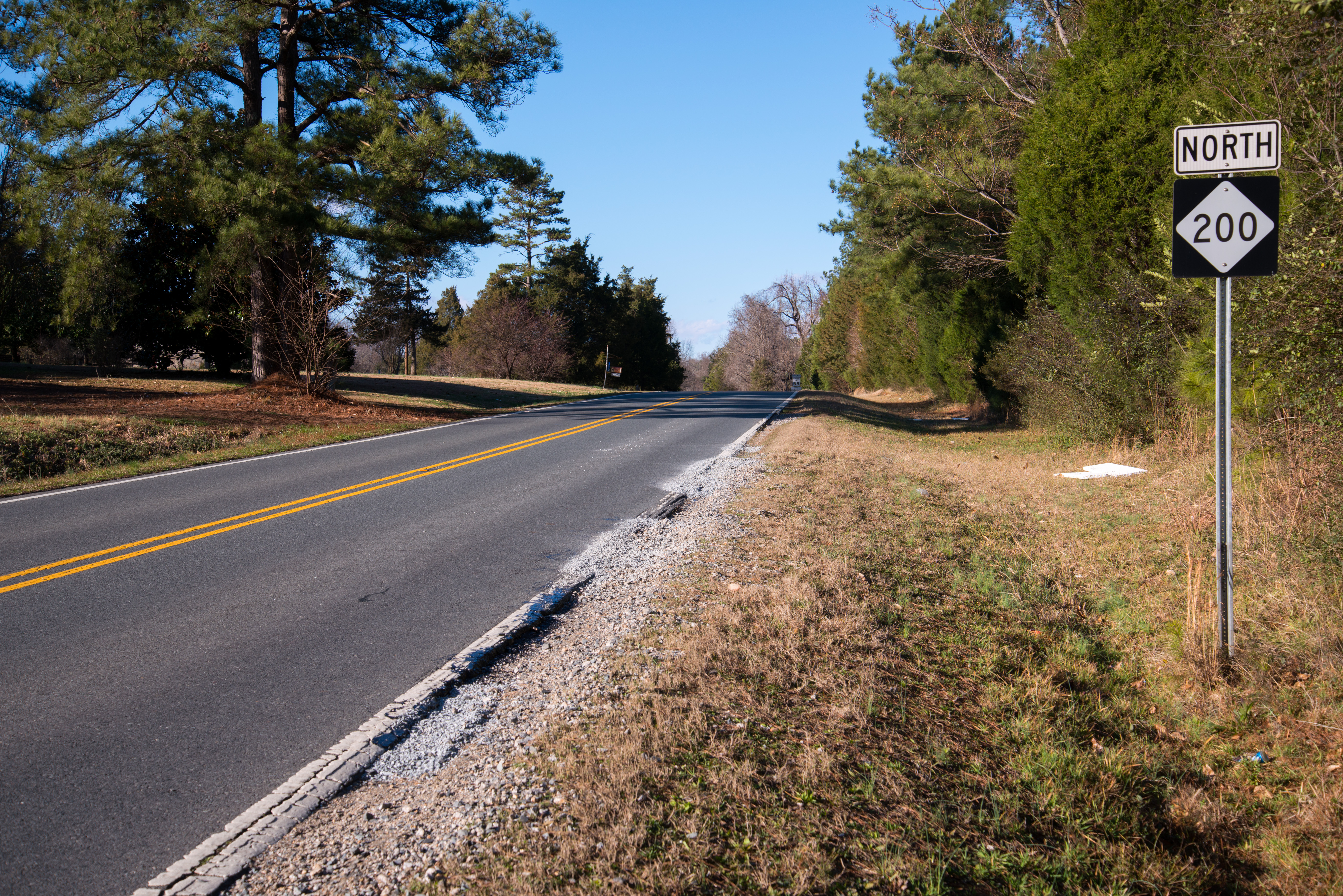 Northbound North Carolina Highway 200, just after the North and South Carolina state line.